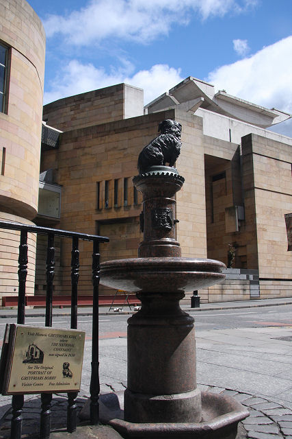 Greyfriars Bobby and the National Museum of Scotland Viewed from the top of Candlemaker Row, looking across to the National Museum of Scotland behind.